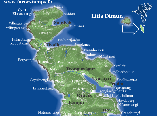 The northern part of Suðuroy, Faroe Islands